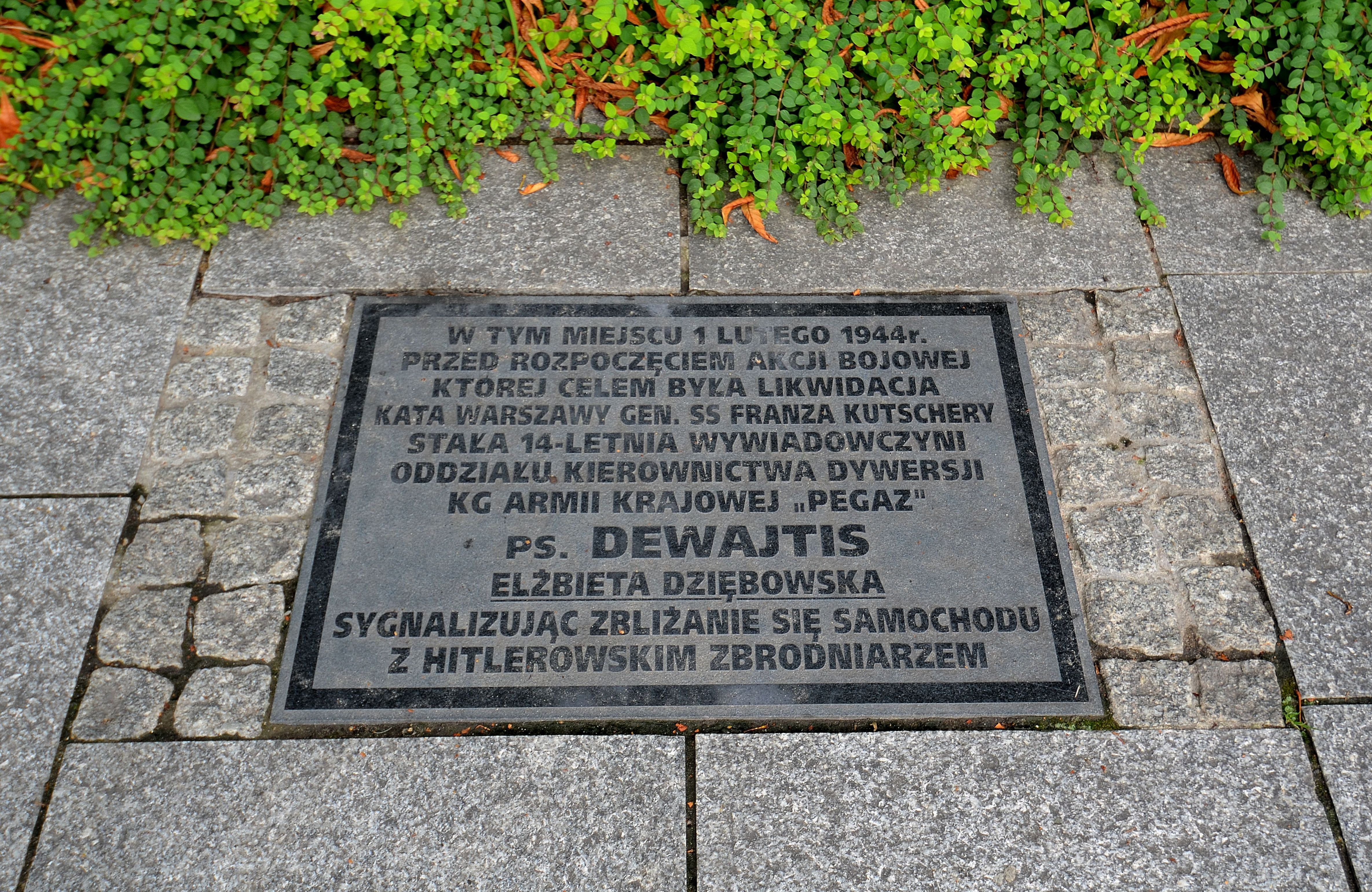 Plaque on Ujazdowskie Avenues in Warsaw commemorating the place where during the Operation Kutschera on February 1st 1944 Elżbieta Dziębowska "Dewajtis" was standing.